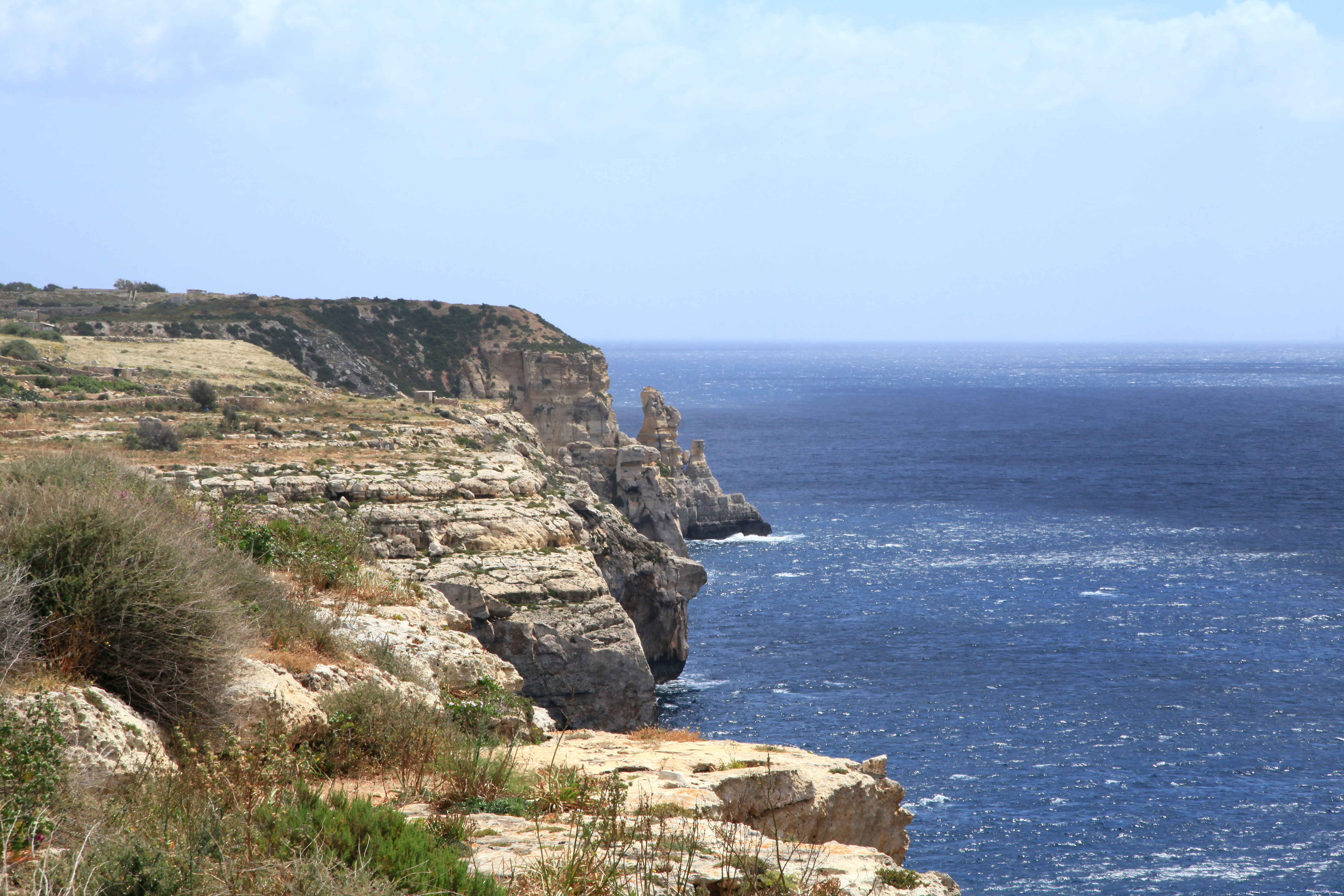 Coast at Triq Għar Ħasan in Birżebbuġa, Malta